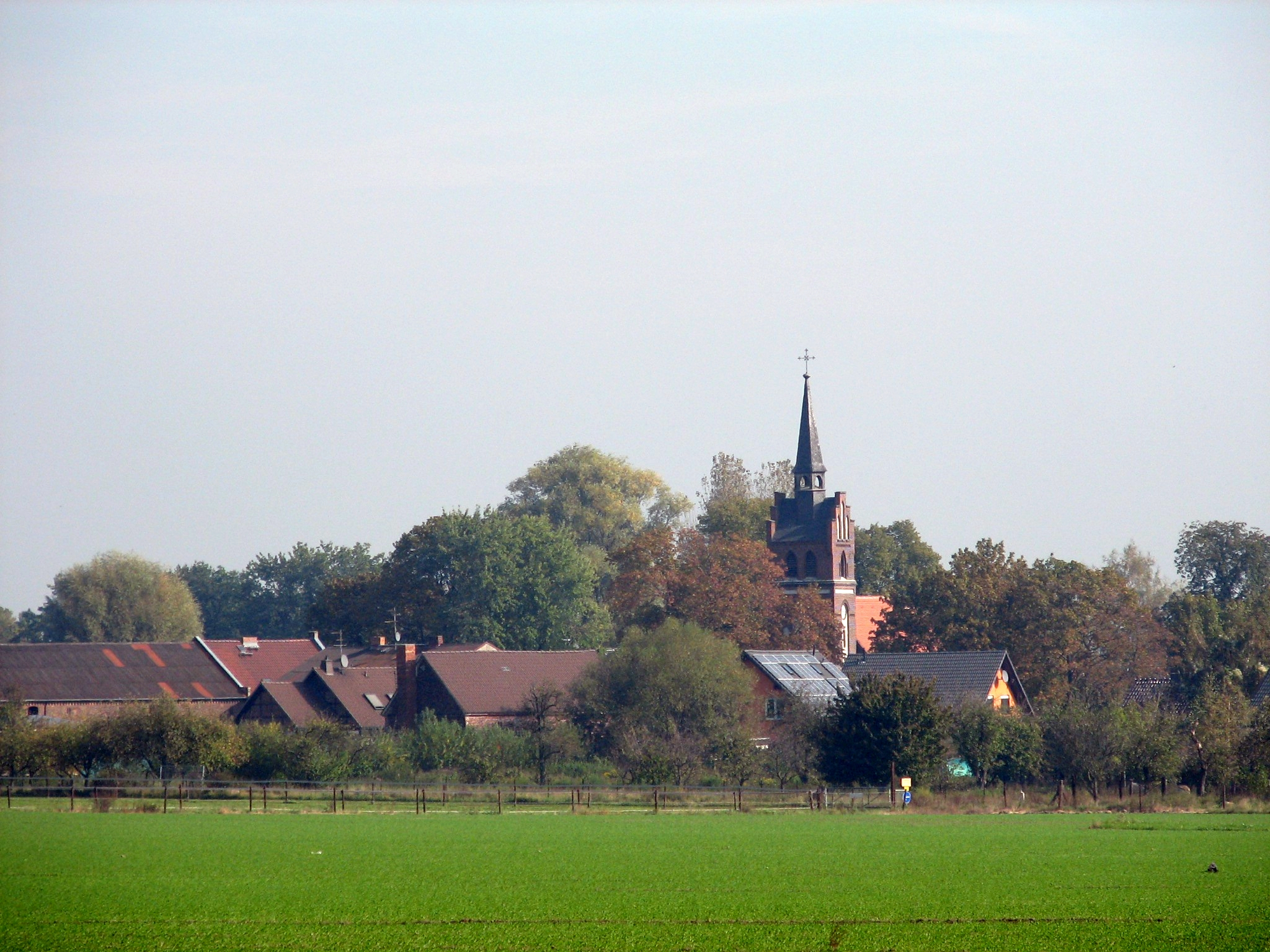 A view upon Münchehofe as seen from the Dahlwitzer Landstraße.